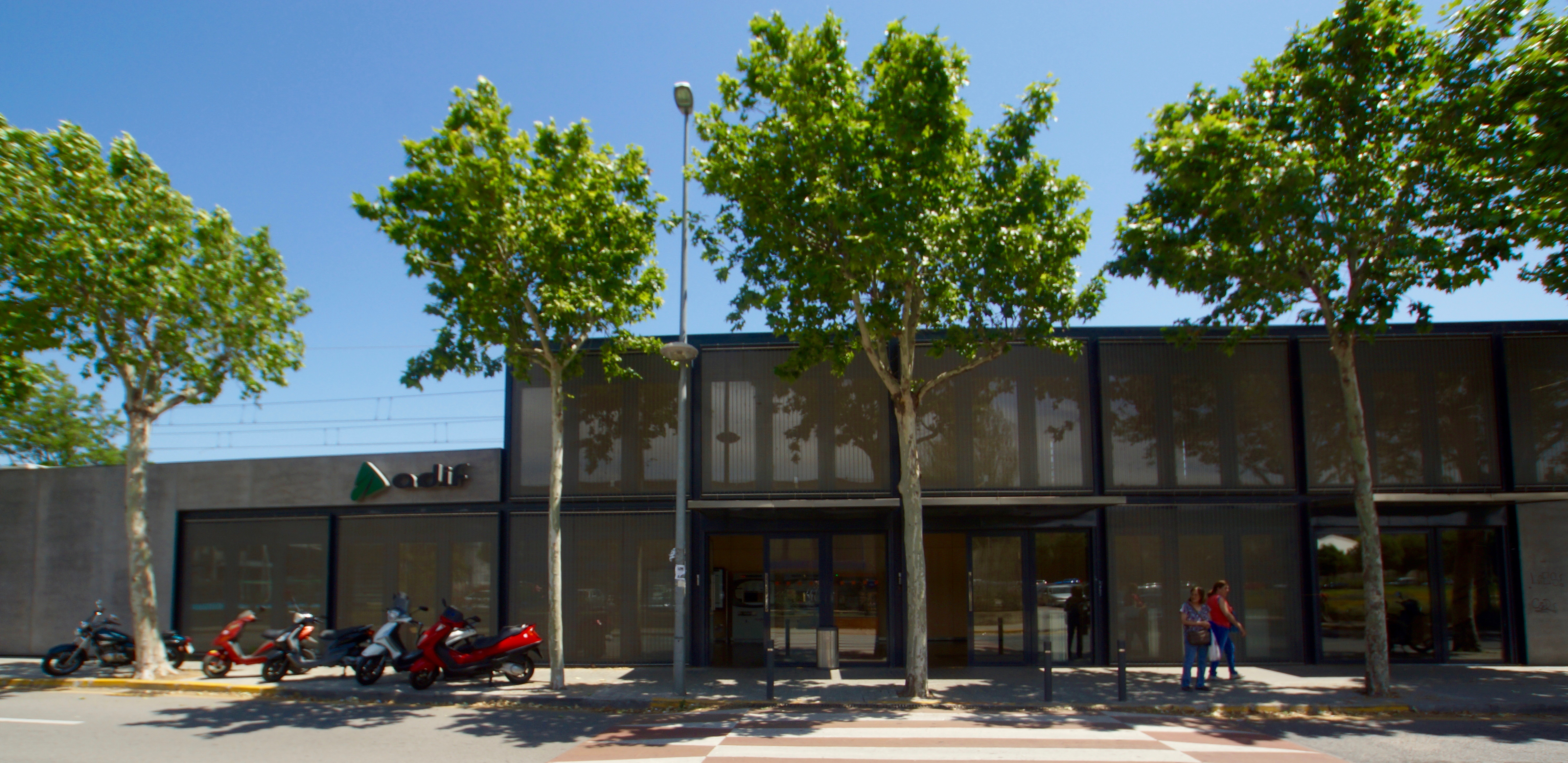 La Llagosta, Catalonia: Railway Station